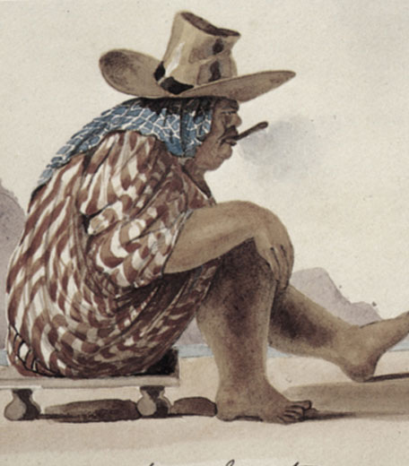 King Tapoa II of Bora Bora and Maupiti by Henry Byam Martin. The painting was inscribed: His most...[???]..Majesty, Tapoa, by the Grace of God, King of Bora Bora & Maupiti.